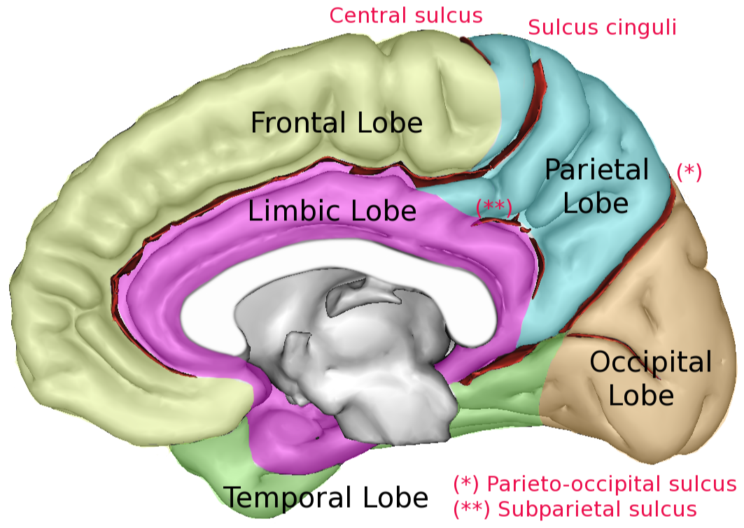 Brain lobes, main sulci and boundaries